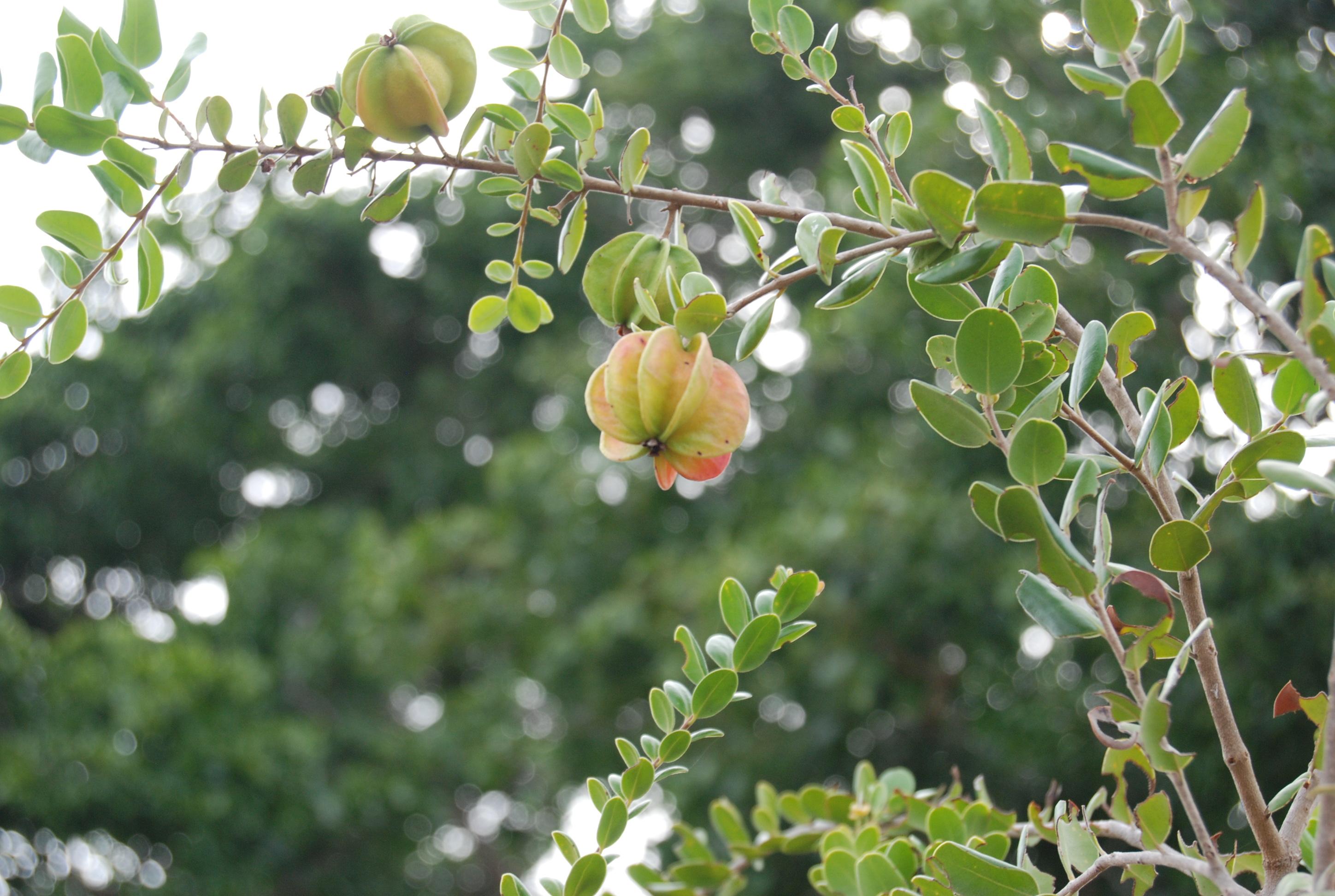 Eugenia woodburyana USFWS photo